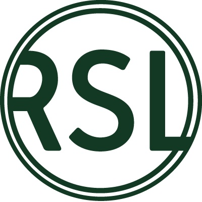 Logo of the RSL